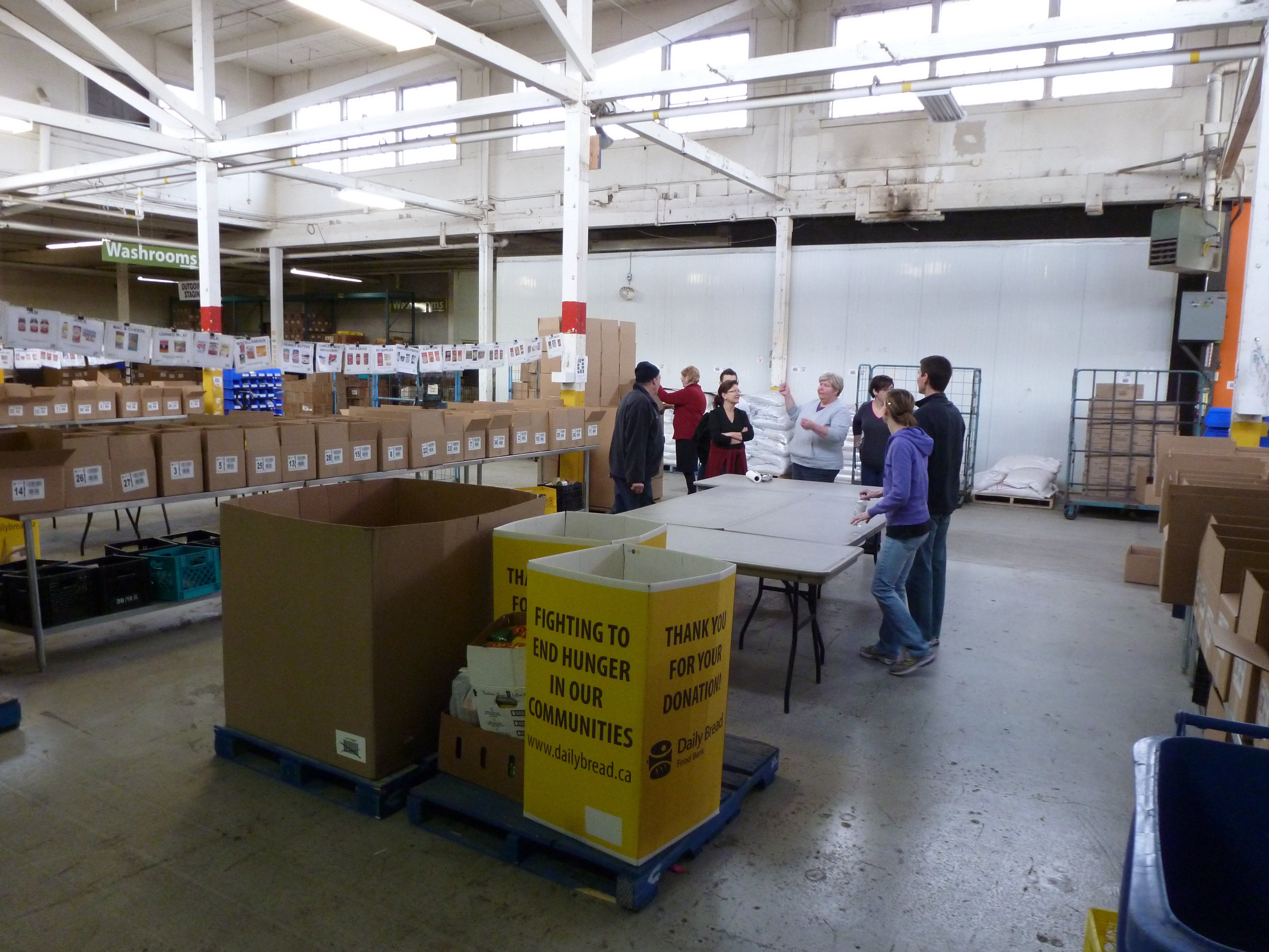 The Daily Bread Food Bank sign with its motto: Fighting to end hunger in our communities. The Daily Bread Food Bank is a non-profit, charitable organization located in Etobicoke and it supplies all the Greater Toronto Area’s 170 food assistance locations.